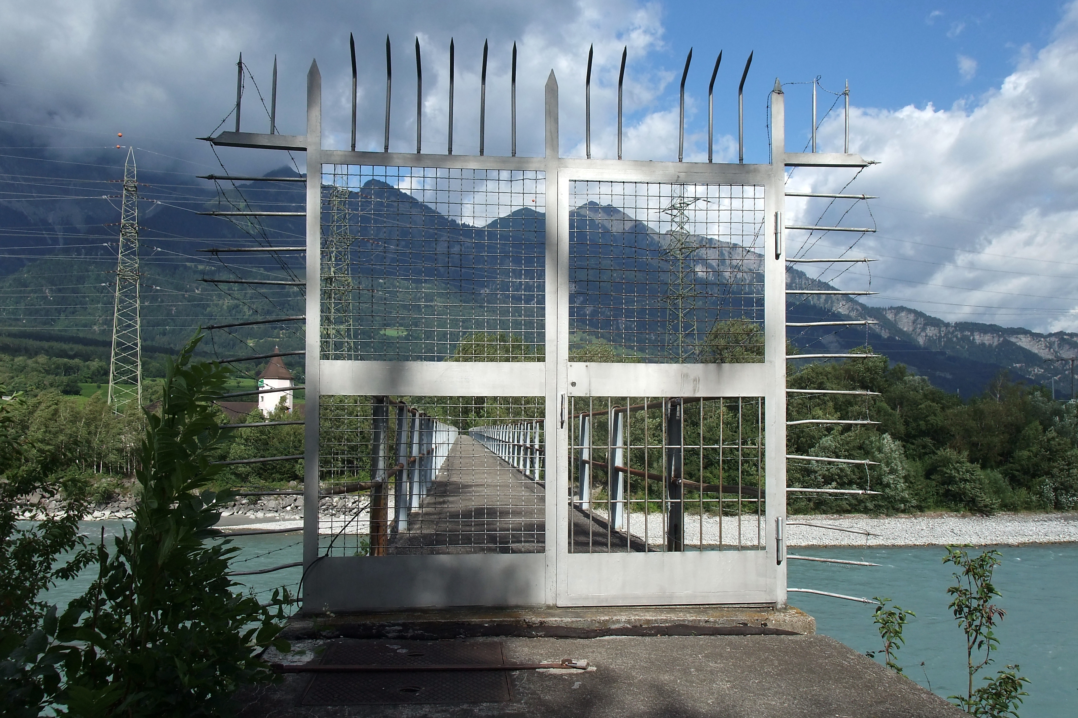 This bridge over the Rhine virtually exists only on aerial photographs. The search on maps is almost in vain, as I found out by accident. Only in the latest official national maps it's shown again as a streak. The reason may be, that in this bridge an old oil pipeline is hidden. In the conduit flowed crude oil from Genoa to Ingolstadt until 1997. The pipeline has a diameter of 55 cm (21.6 in.), what already required a proper bridge. Under the name of the former operator of the pipeline, Oleodotto del Reno, you can find some information, but this bridge is not mentioned anywhere. To prevent possible attacks, they have it unceremoniously eliminated from the maps. The pipeline is now reactivated and converted into a high-pressure gas line. Whether the bridge is used further for the gas line, I don't know. The construction works on the one hand indicate that this is probably not the case. The bridge was built in the mid-sixties and shows signs of decay. Bad Ragaz, Switzerland, July 22, 2012. Coordinates 757400 / 208760 Sorry, but the bridge is already on maps since 1972.